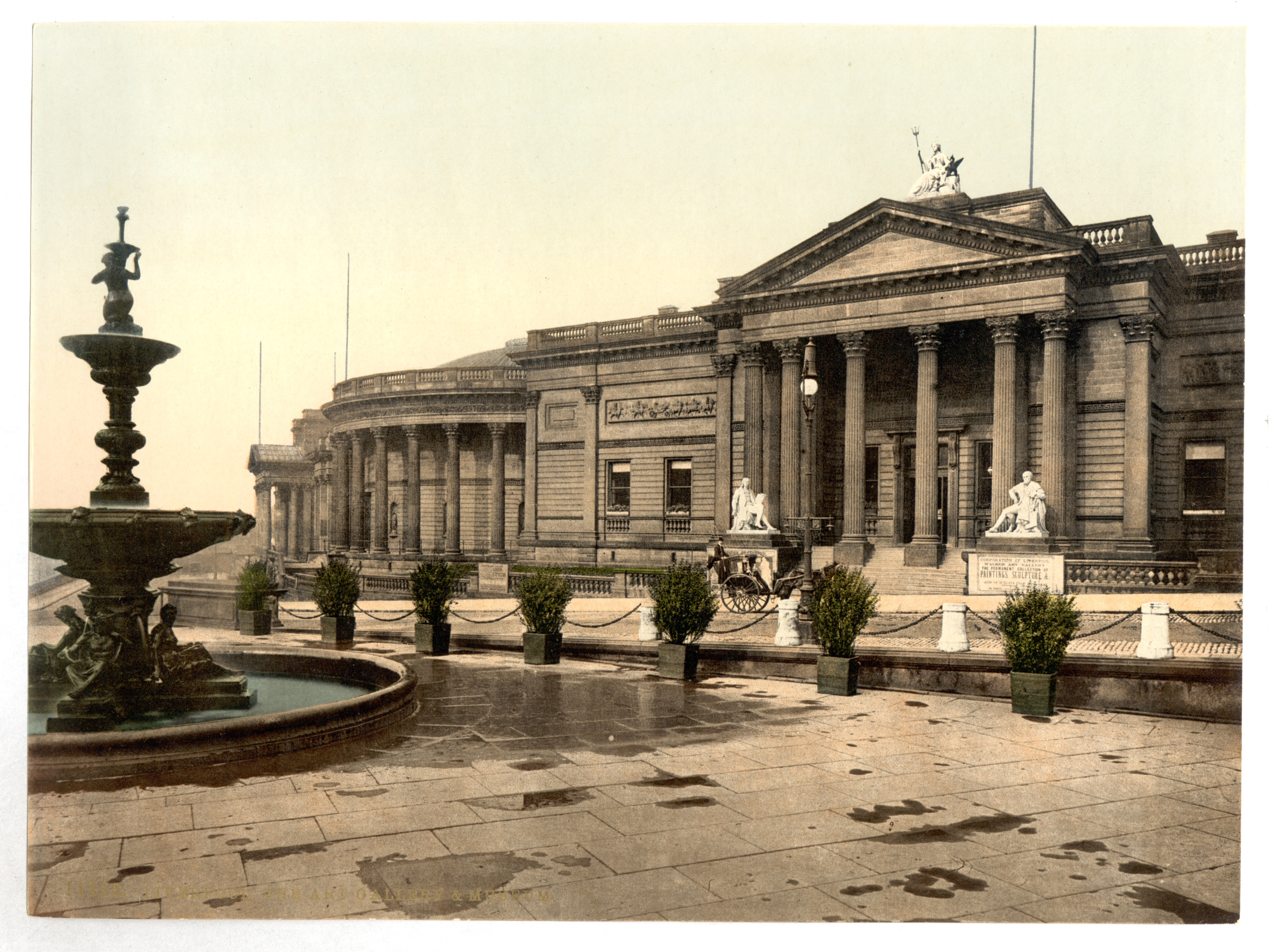 Forms part of: Views of the British Isles, in the Photochrom print collection.; More information about the Photochrom Print Collection is available at Title from the Detroit Publishing Co., Catalogue J-foreign section, Detroit, Mich. : Detroit Publishing Company, 1905.; Print no. "11250".